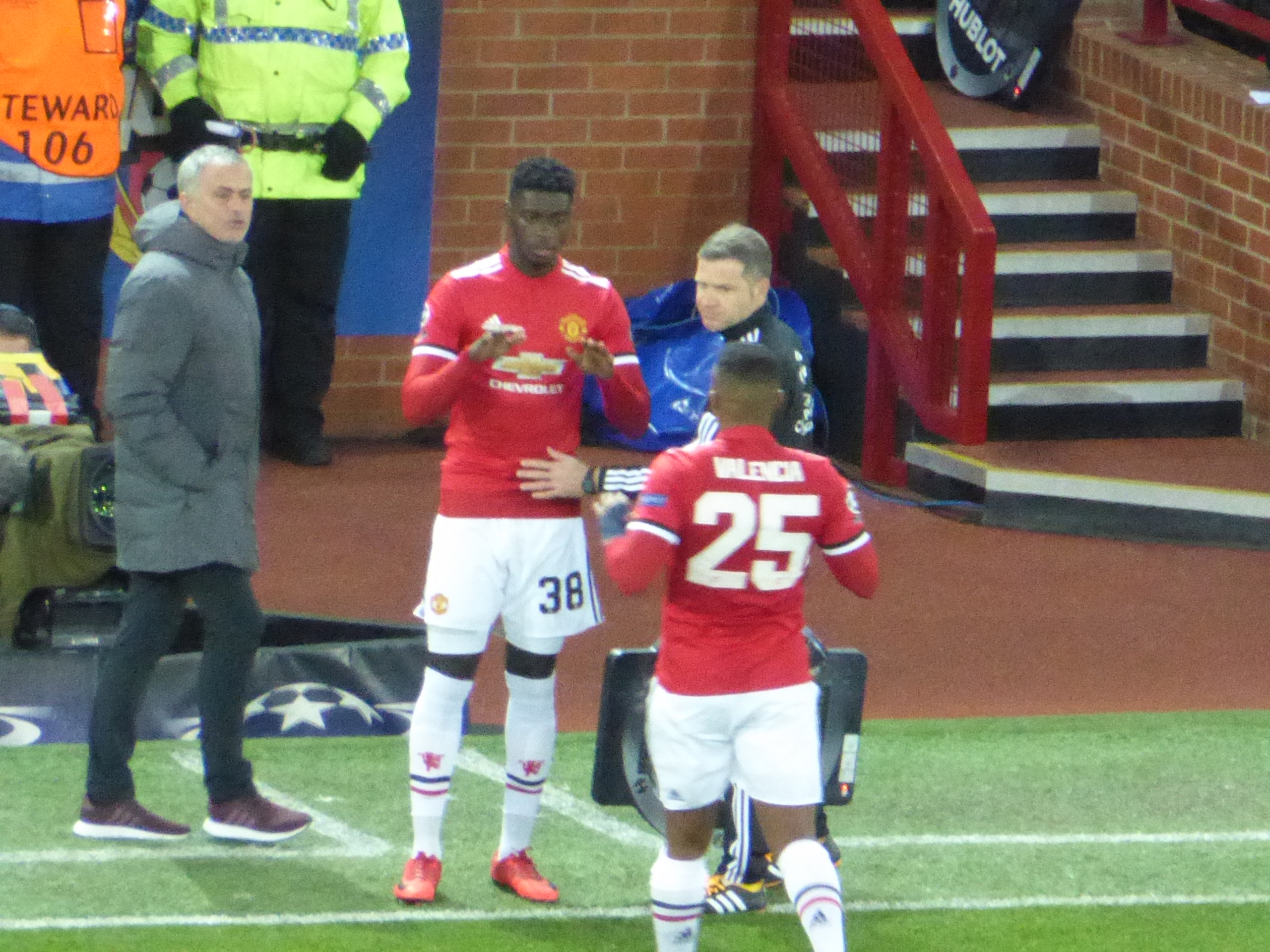 Manchester United v CSKA Moscow (2-1), UEFA Champions League, Old Trafford, Manchester, Greater Manchester, England, 5 December 2017